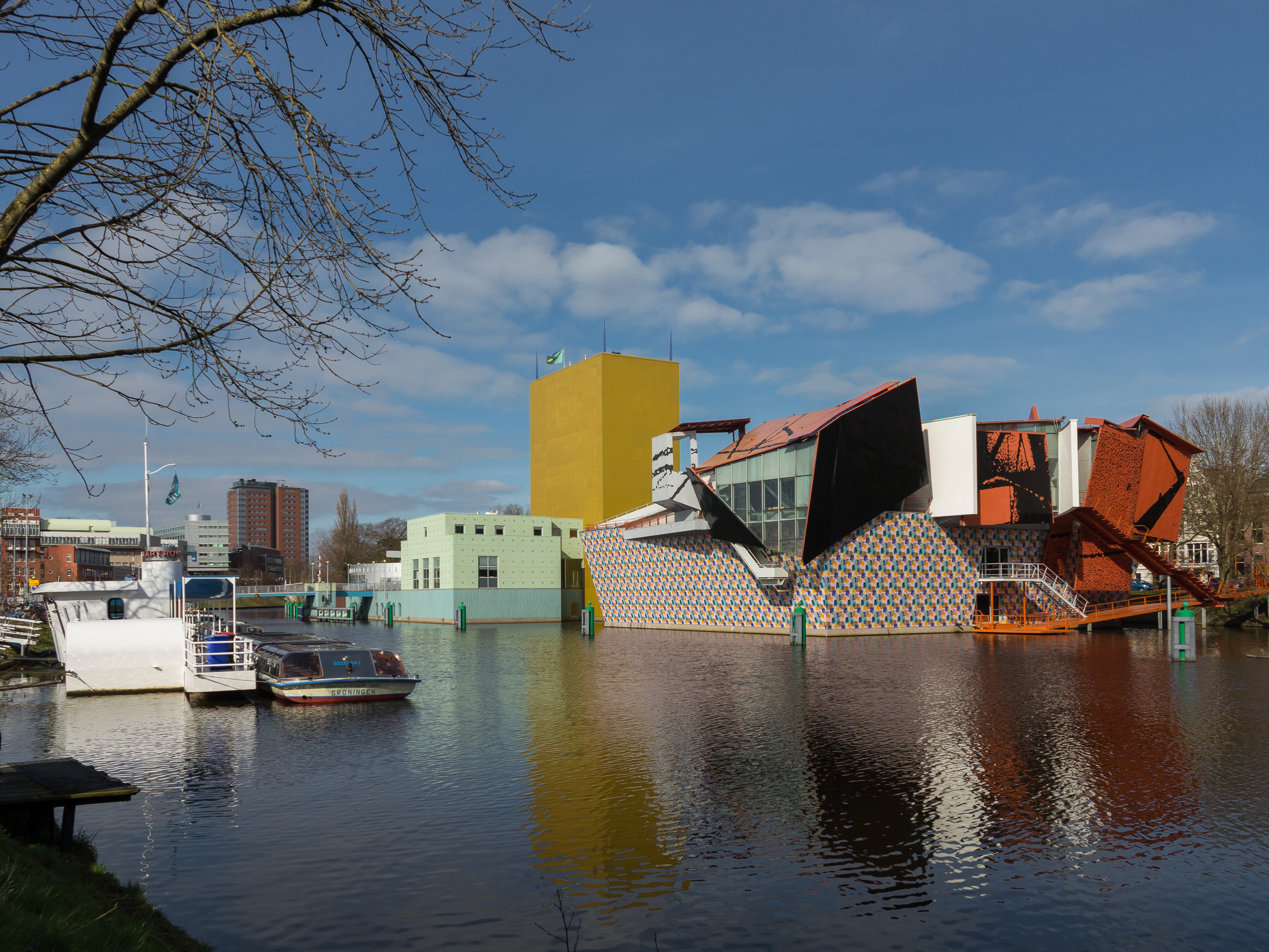 Groningen, museum: het Groninger museum